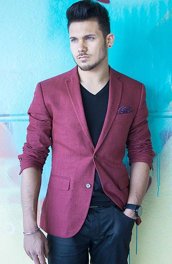 Picture of Mickey Singh from Photo Shoot